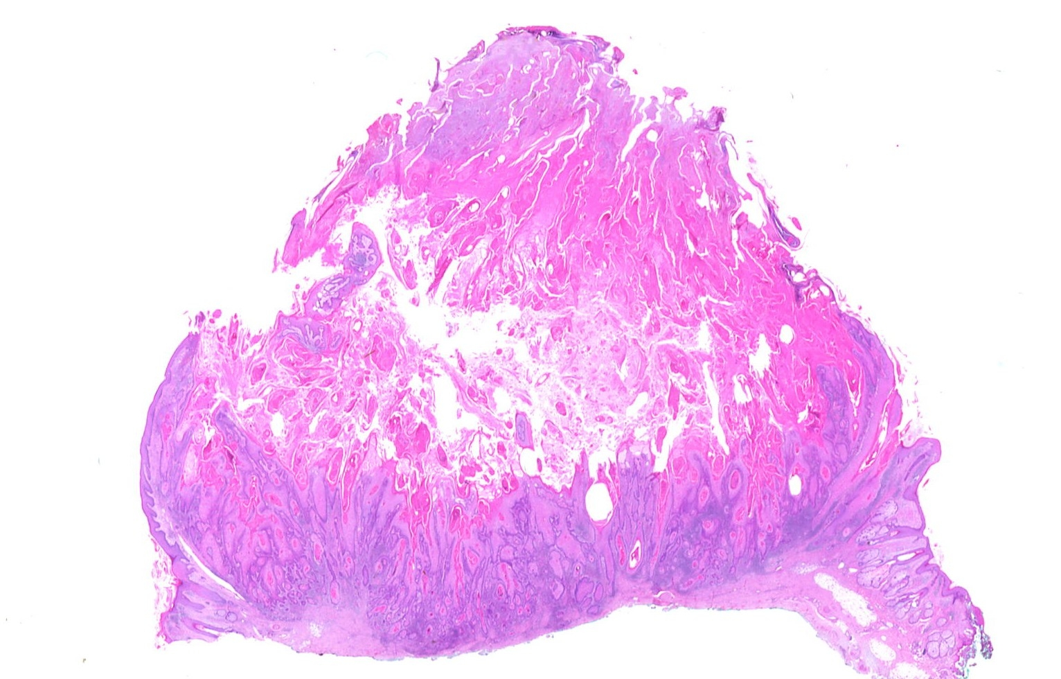 Whole slide of a large skin keratoacanthoma, scanned (Epson Perfection 1670 scanner)